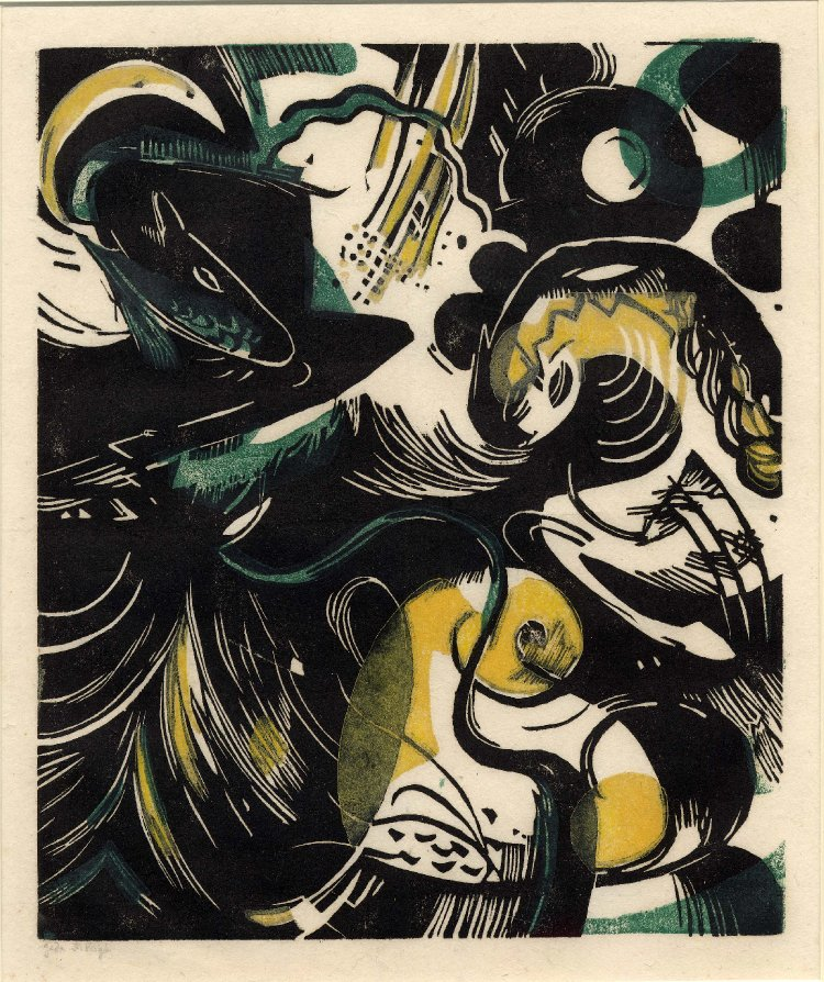 "Schöpfungsgeschichte II," colour woodcut, by the German artist Franz Marc. 237 mm x 200 mm. Courtesy of the British Museum, London.